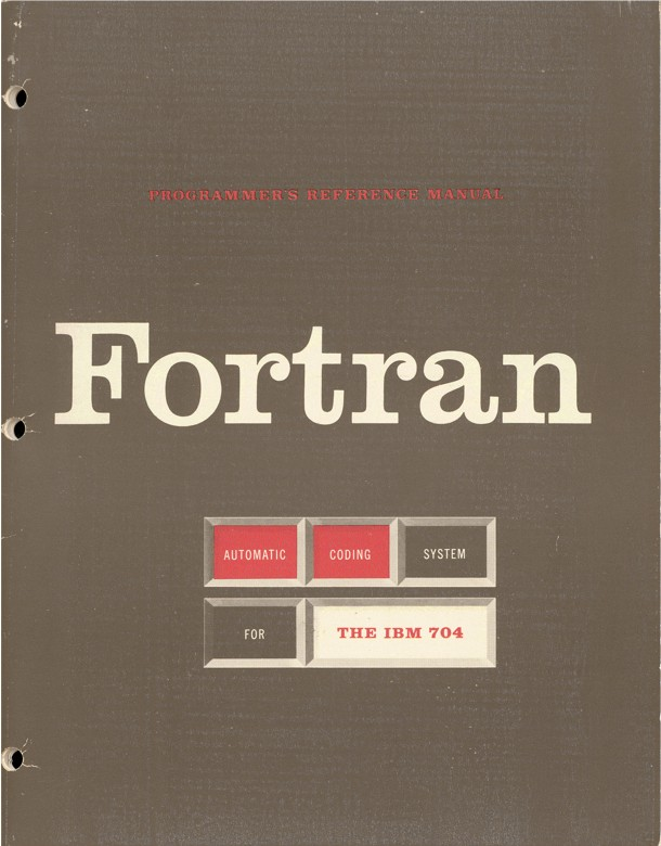 Cover of The Fortran Automatic Coding System for the IBM 704 EDPM, said to be the first book about Fortran.